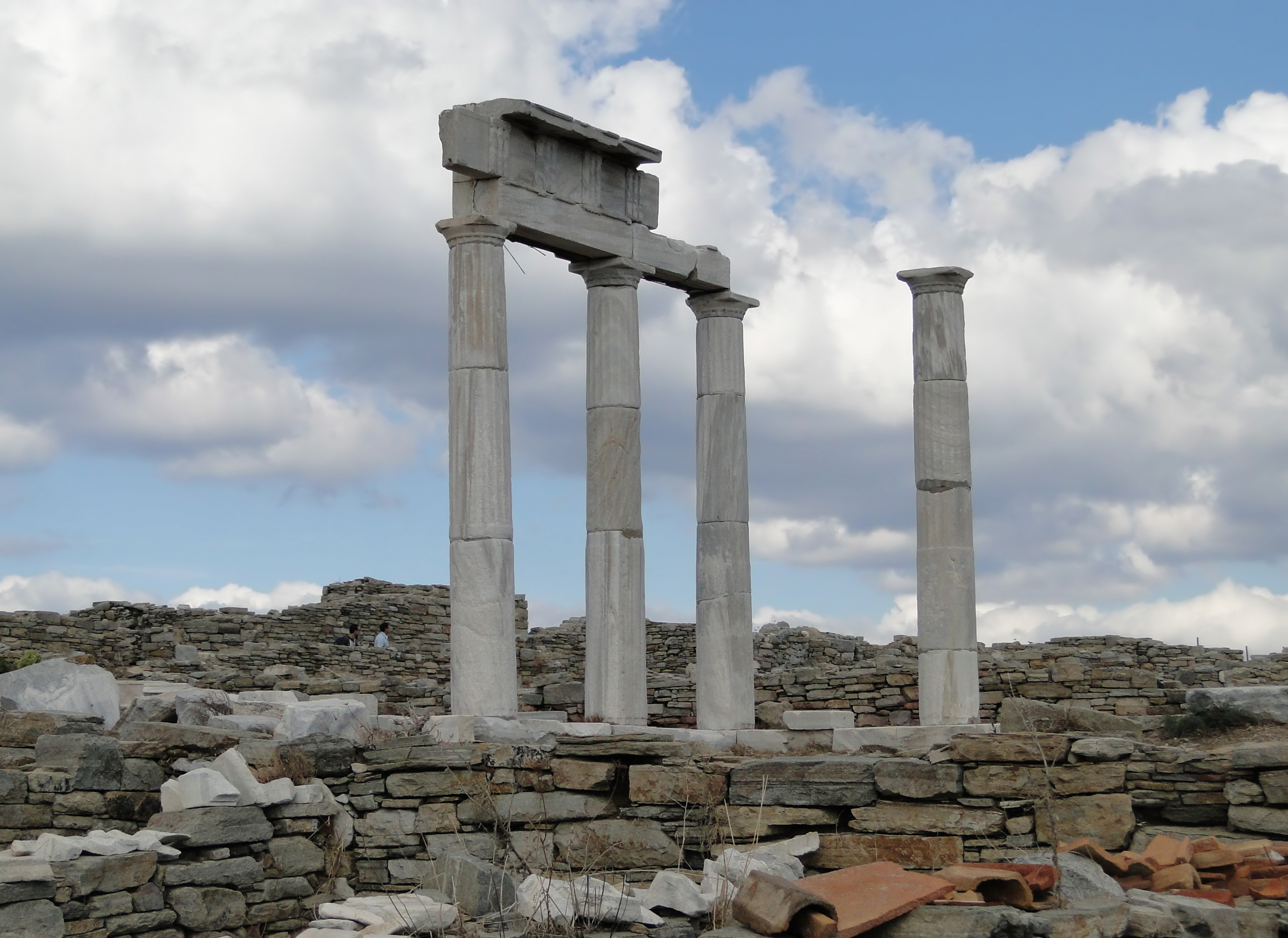 Establishment of the Poseidoniasts, Delos, Greece